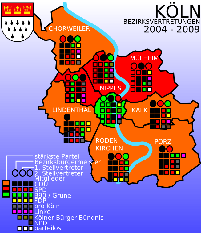 party of the district mayors of the 9 city districts of Cologne from 2004 through 2009